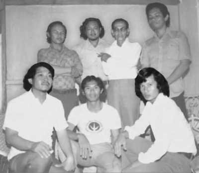 RM Soebandiman Dirdjoatmodjo and UGM students